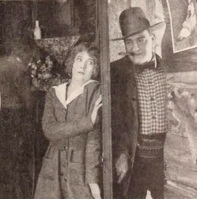 Still from the American film The Girl with the Champagne Eyes with Jewel Carmen and G. Raymond Nye, on page 19 of the February 23, 1918 Exhibitors Herald.